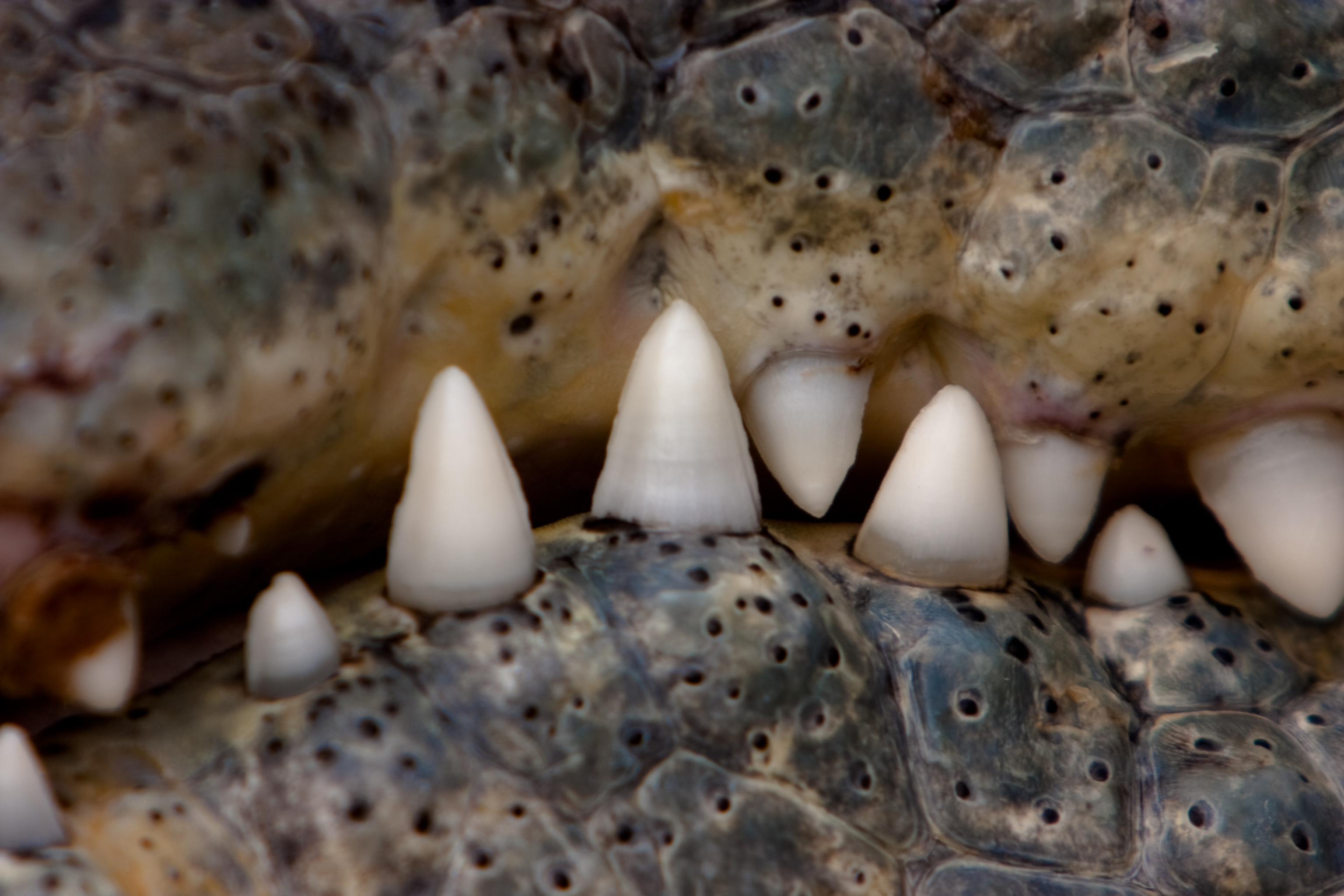 Crocodile teeth